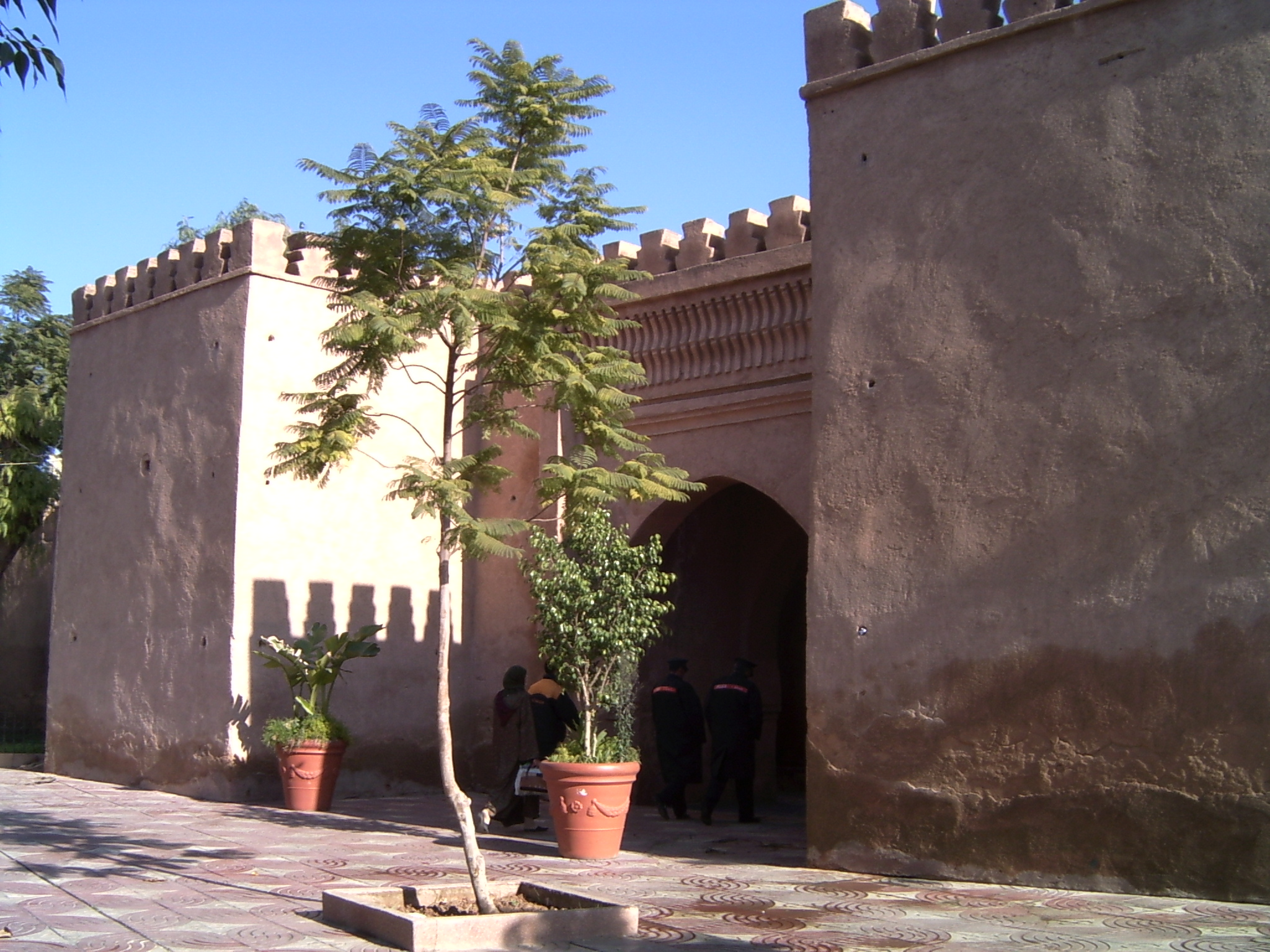 Medina Oujda